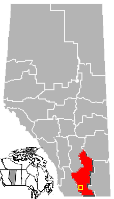 Location of Raymond, Census Division No. 2, Albera